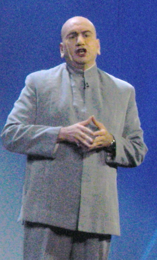 A Dr. Evil impersonator stands with Michael Dell. Image taken at a Dell presentation.